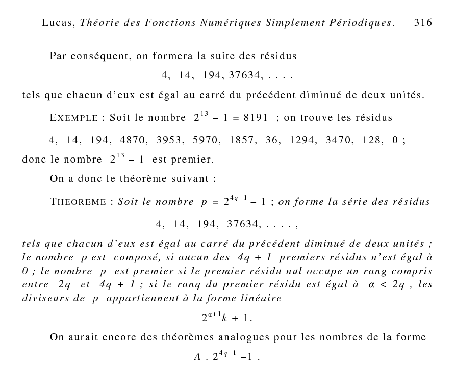 Part of page 316 of Édouard Lucas: Théorie des fonctions numériques simplement périodiques, American Journal of Mathematics, 1878